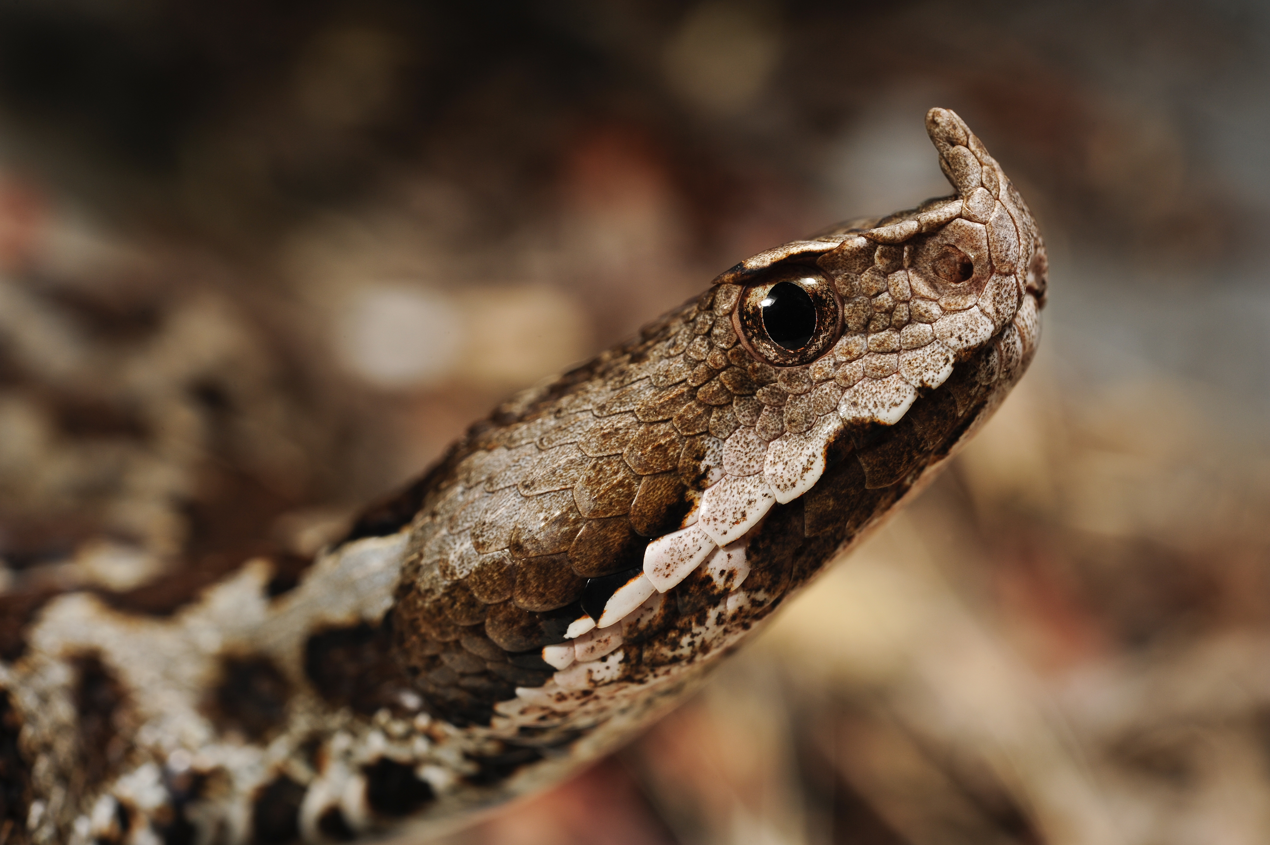 Vipera ammodytes meridionalis from Peloponnesus in Greece